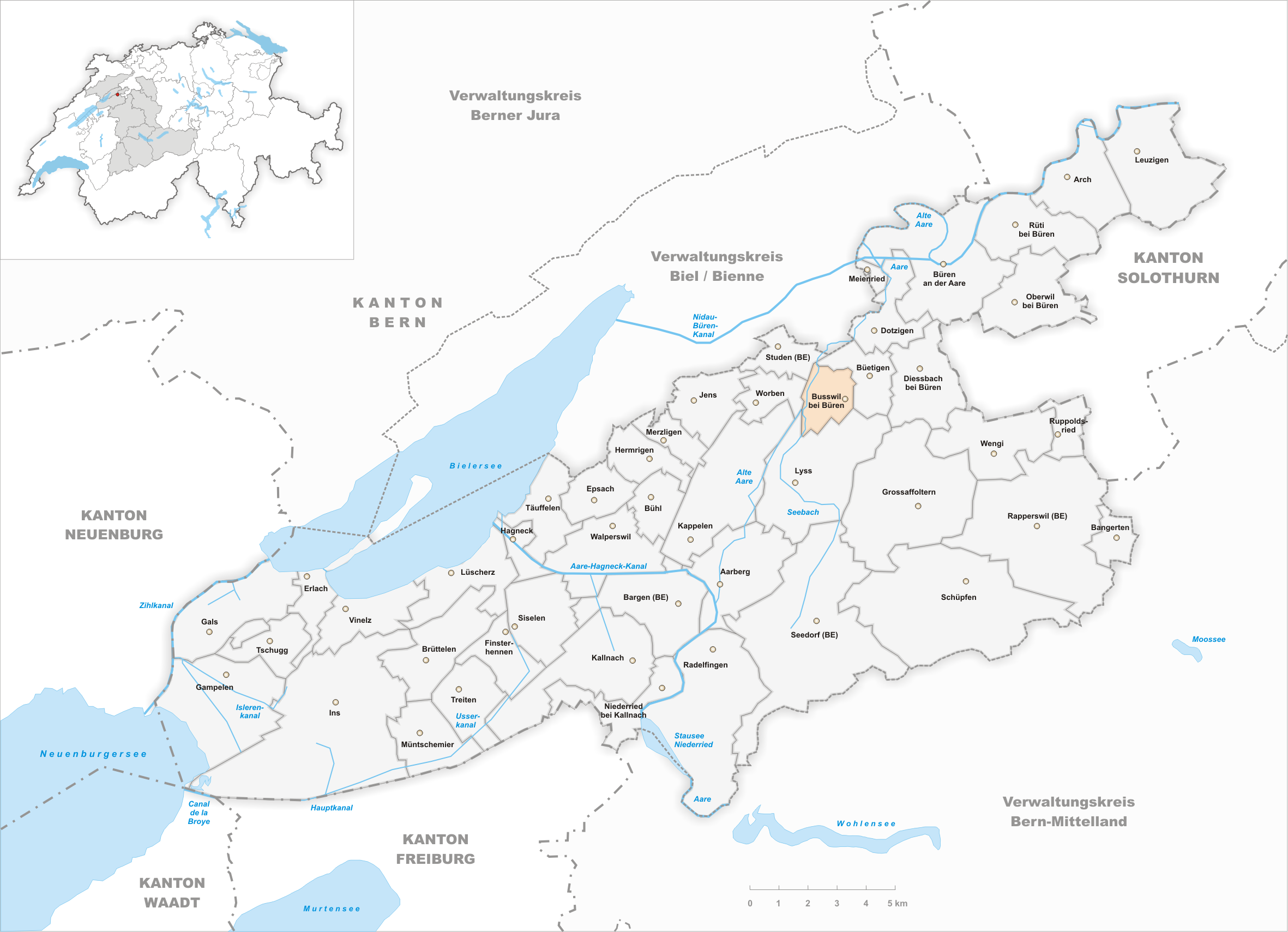 Municipality Busswil bei Büren